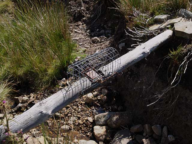 Animal trap. Spotted several of these about. Crossing mainly ditches, but one over Dry Beck. The spring-loaded trap is surrounded by a wire cage to protect animals larger than its intended victim - whatever that may be. I don't think that anything larger than a weasel could fit through. A similar trap can be seen at 421013 in the North York Moors.